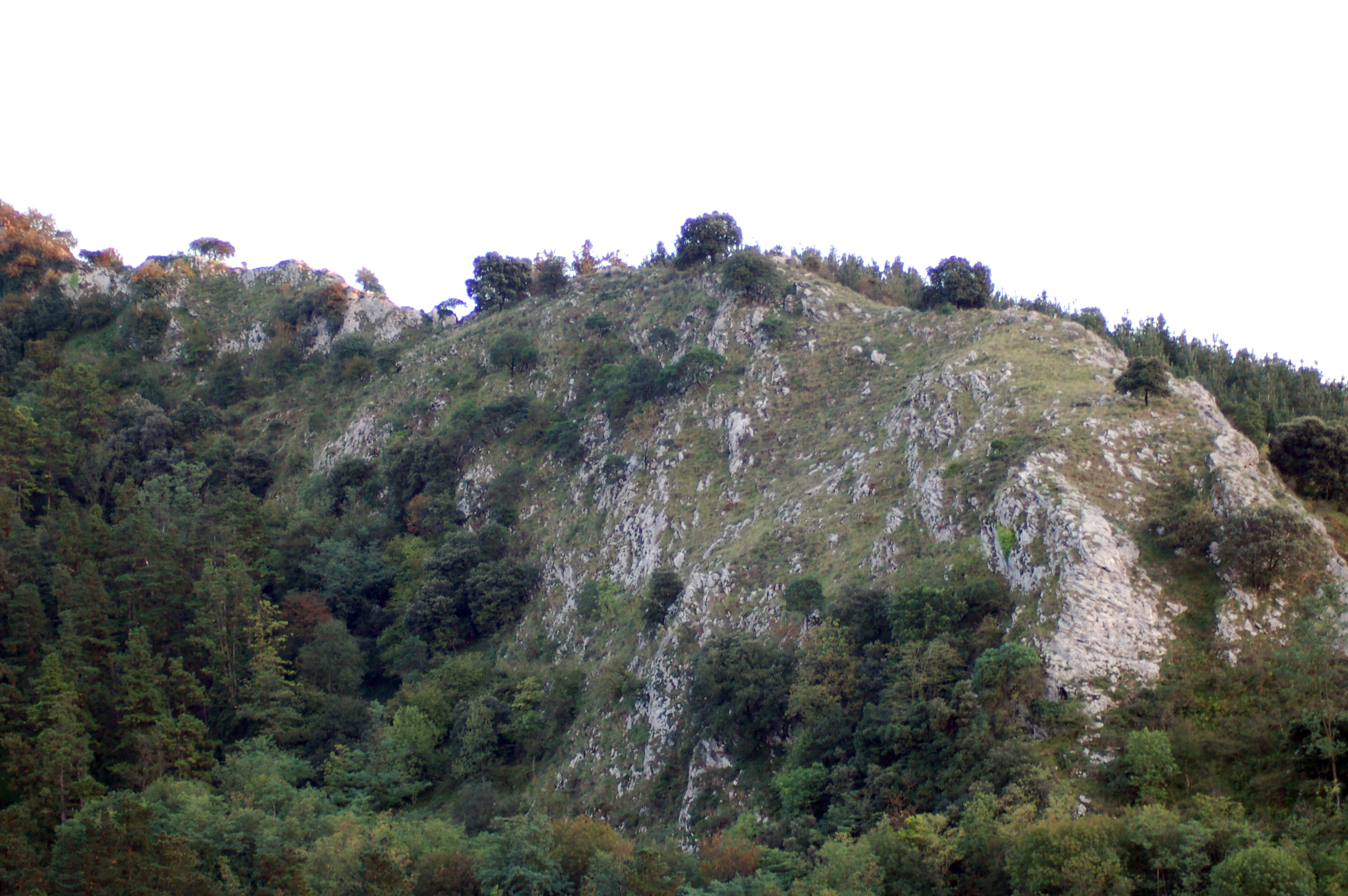 View Of Arlanpe